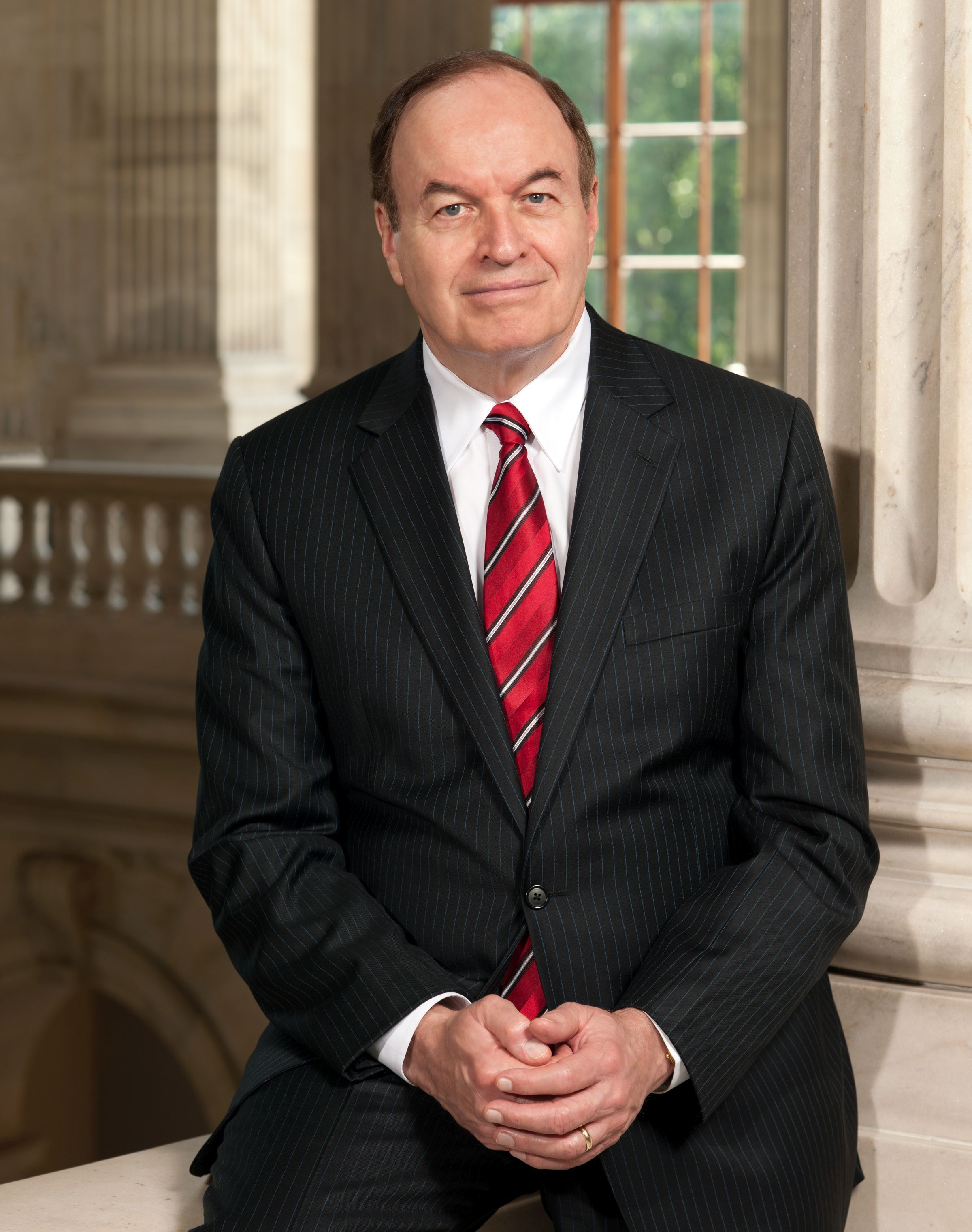 Official portrait of Senator Richard Shelby (R-AL).